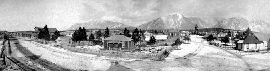 Fort Steele – Site of 1887 North-West Mounted Police barracks